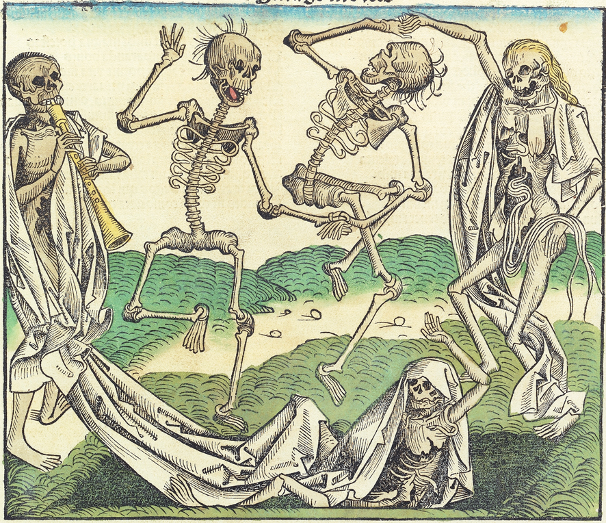 Illustration from the Nuremberg Chronicle (Latin copy in Sao Paulo)